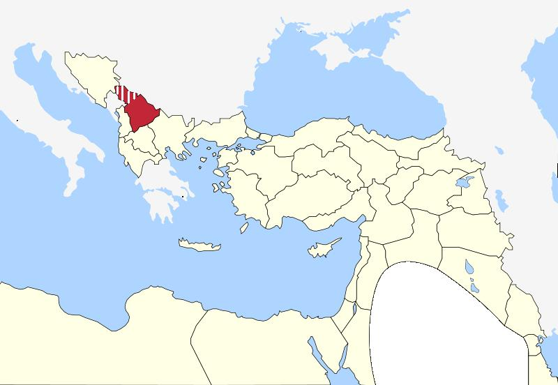 Map of Kosovo Vilayet, Ottoman Empire (1900)